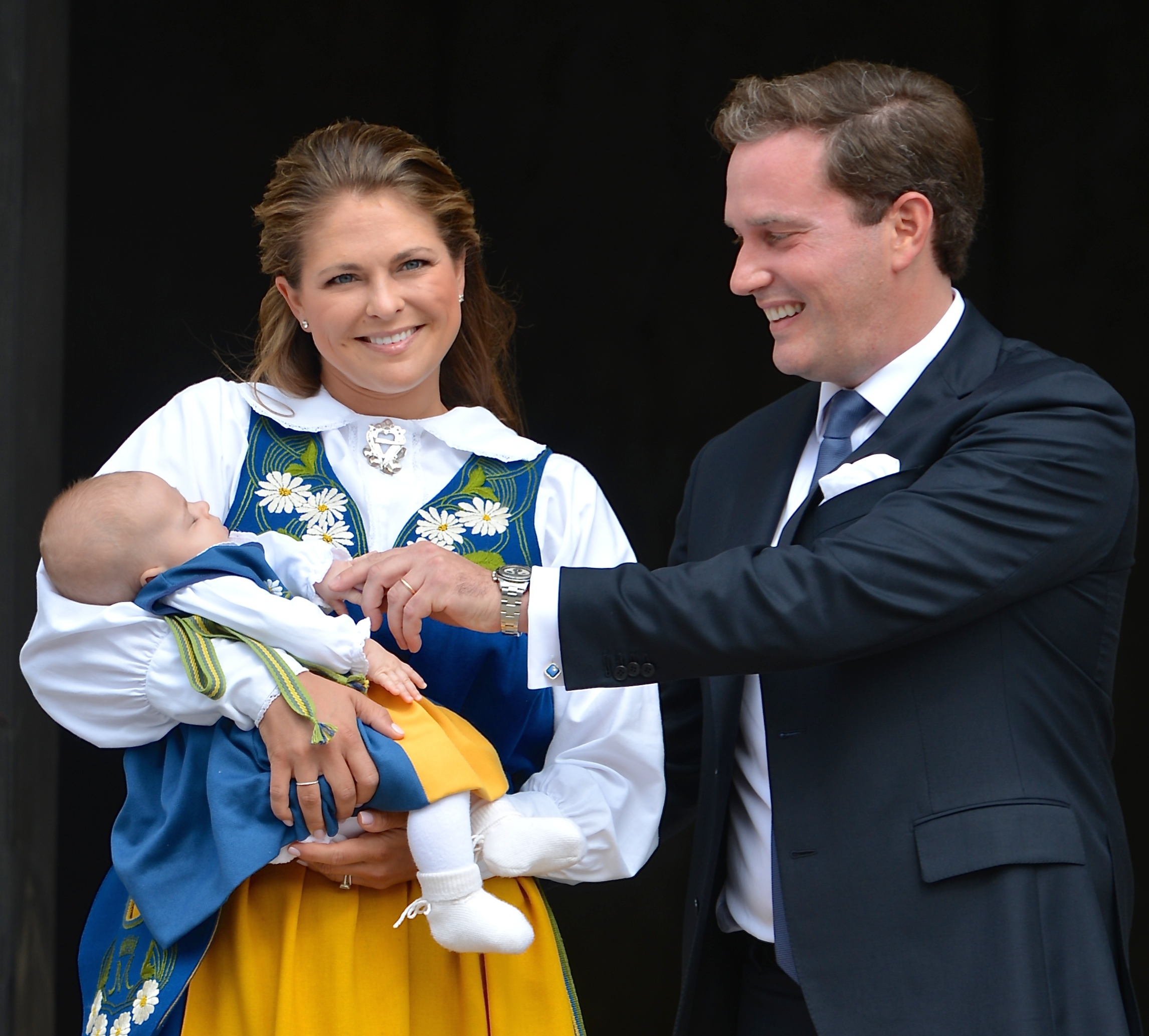 Princess Madeleine of Sweden and Christopher O'Neill on National Day June 6, 2014 in southern arch to the Royal Palace.